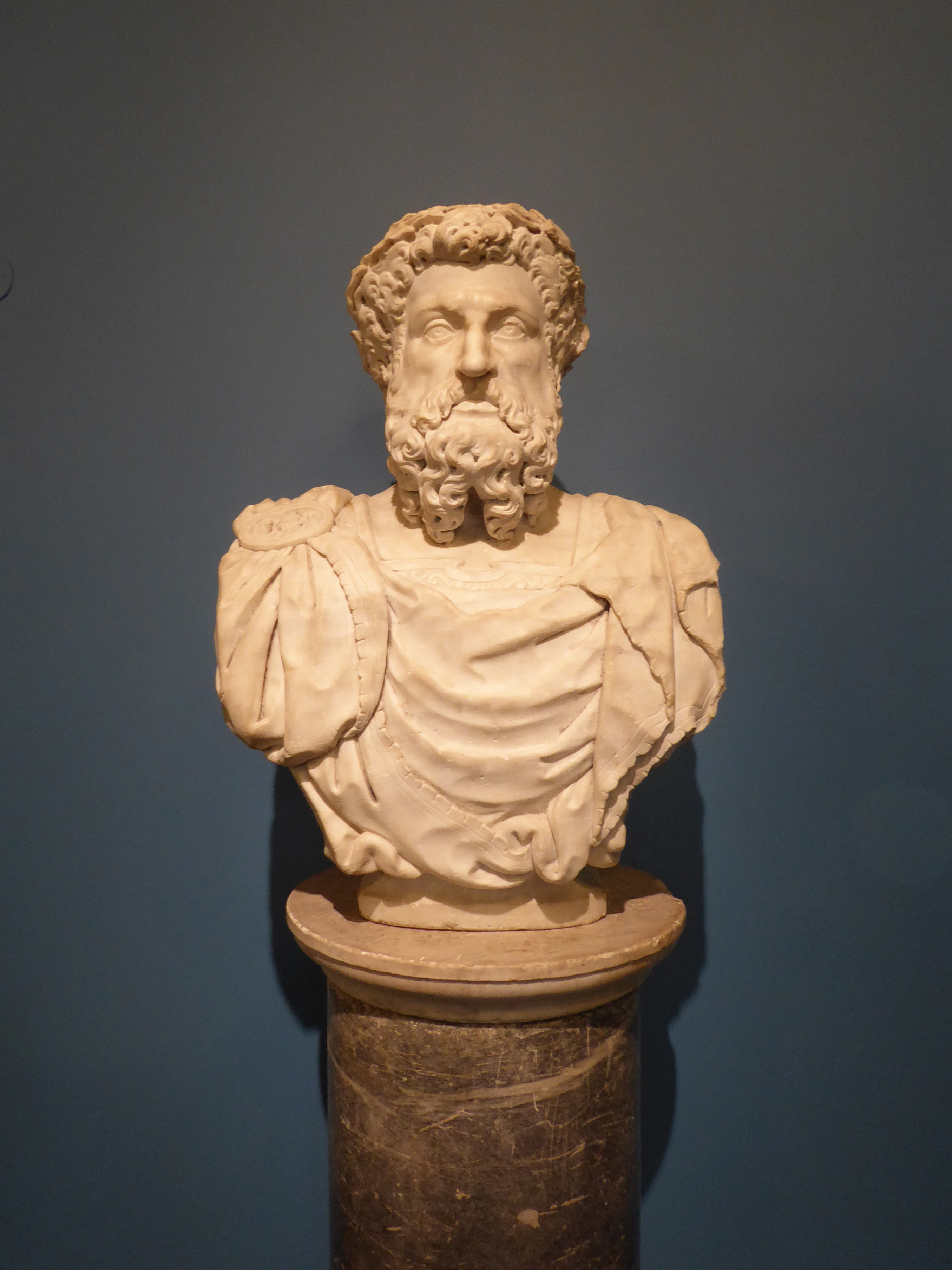 Bust of Andrea Doria (Italy, mid XVI century) in the palace of the Grand Dukes of Lithuania (Vilnius)